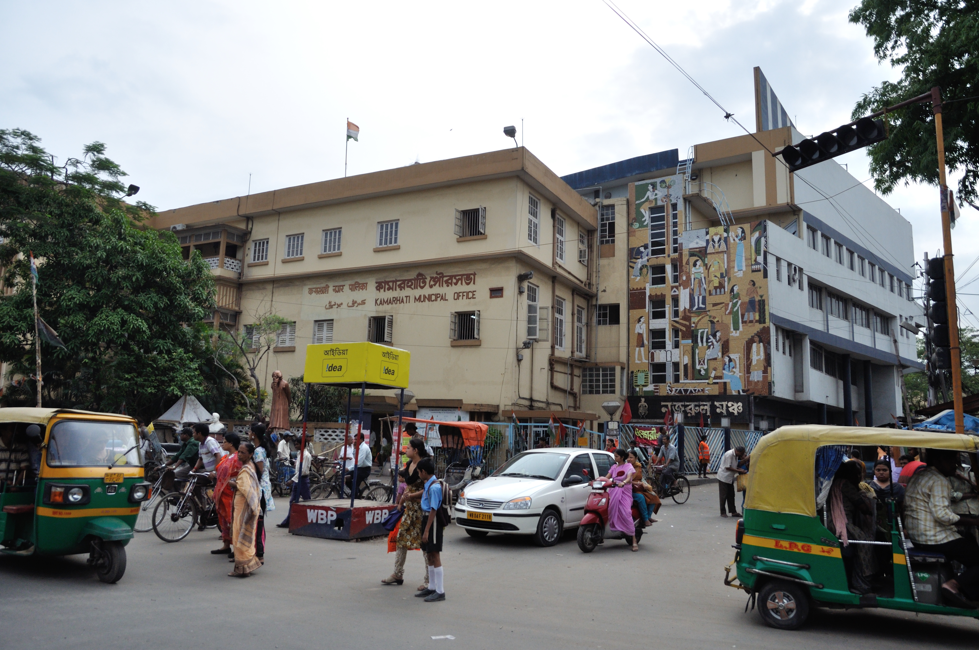 Photographed in West Bengal.